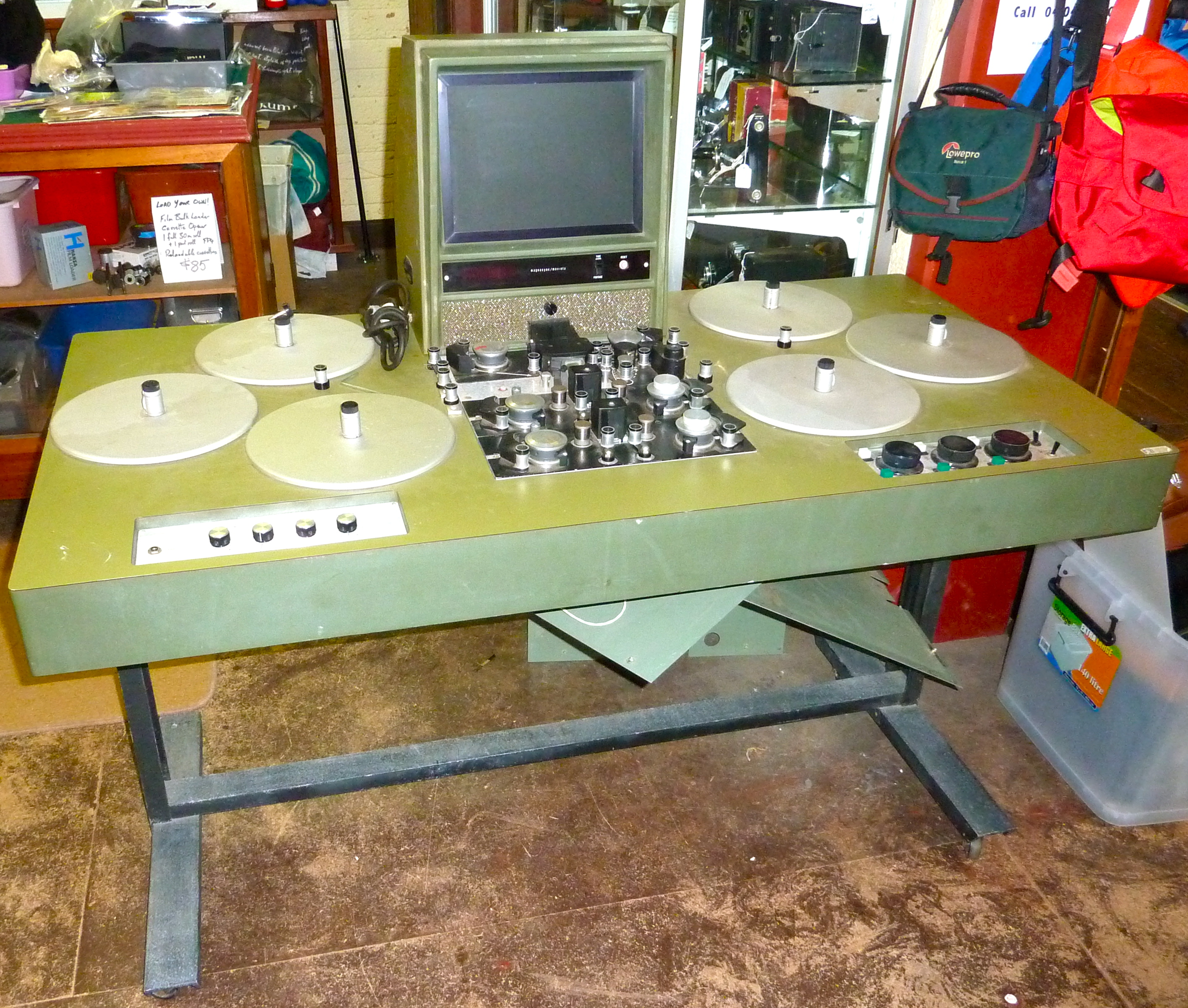 Moviola 16mm Sound Editing Board Circa 1950s